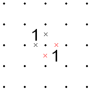 Diagonal adjacent 1s inner